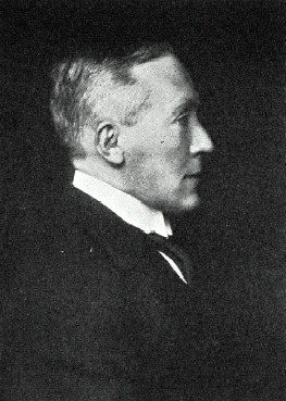 Scan of a picture of British scientist F. G. Donnan (who died in 1955)